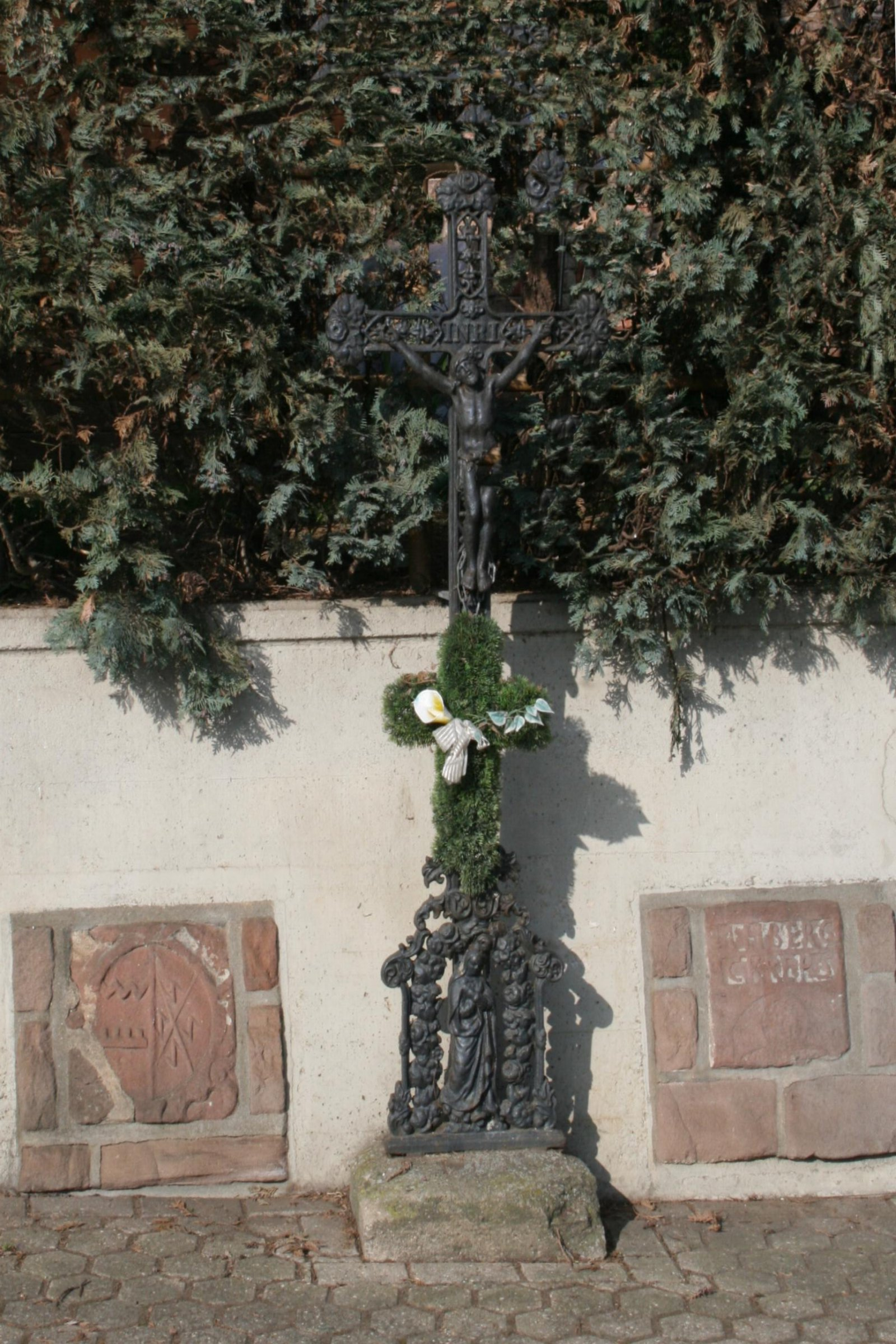 Cultural heritage monument No. 4/006 in Düren